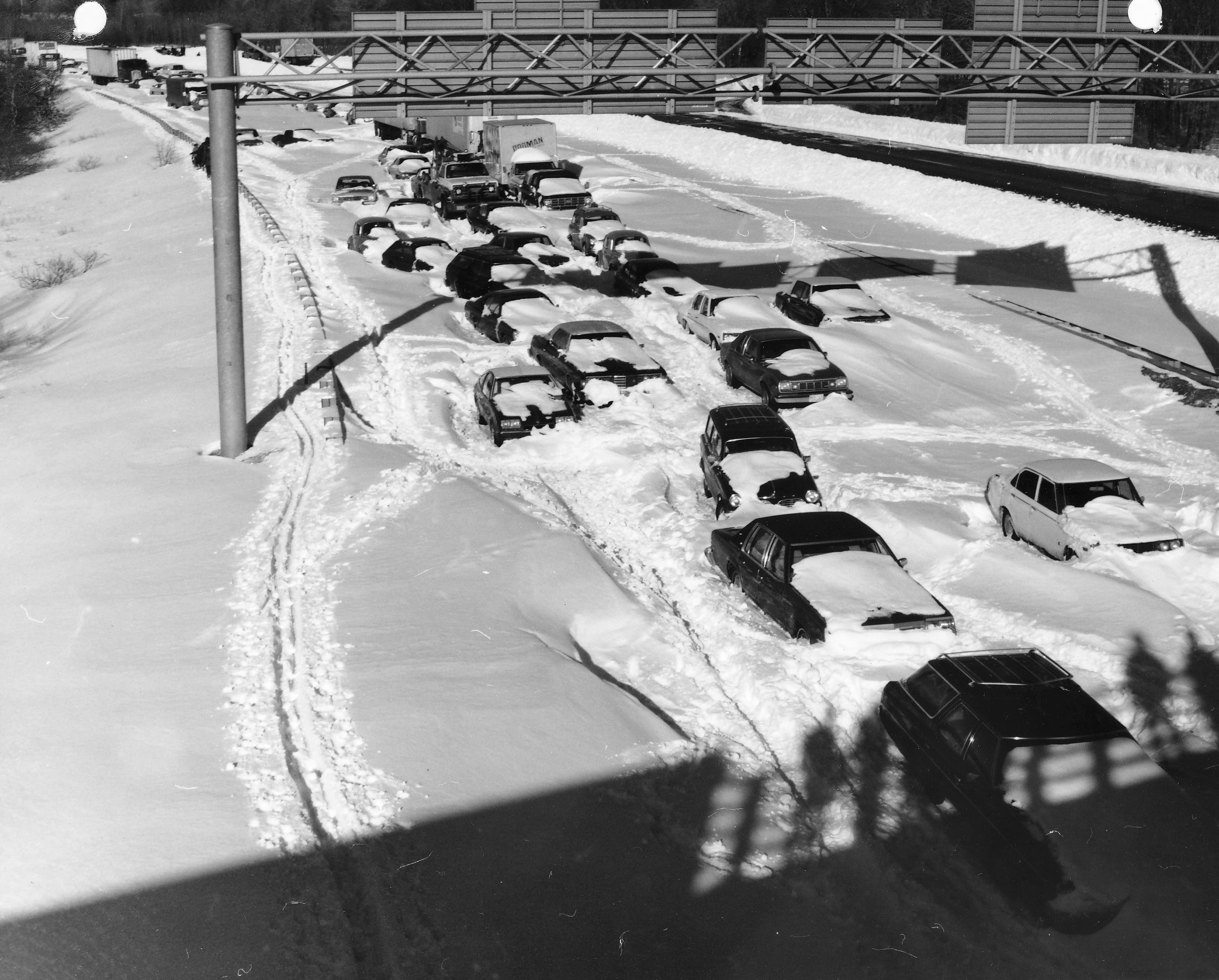 Blizzard of 1978 Cars on Rt 128 S Needham, Mass. New England Division File No. 2 Emergencies